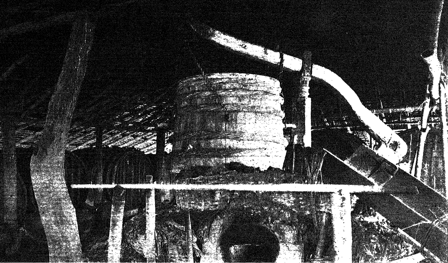 A primitive still called 'caua' (kawa). For a long time this was the standard type of apparatus used in the Philippines, but now it is only used for illicit distillation (Photograph loaned by Bureau of Internal Revenue)